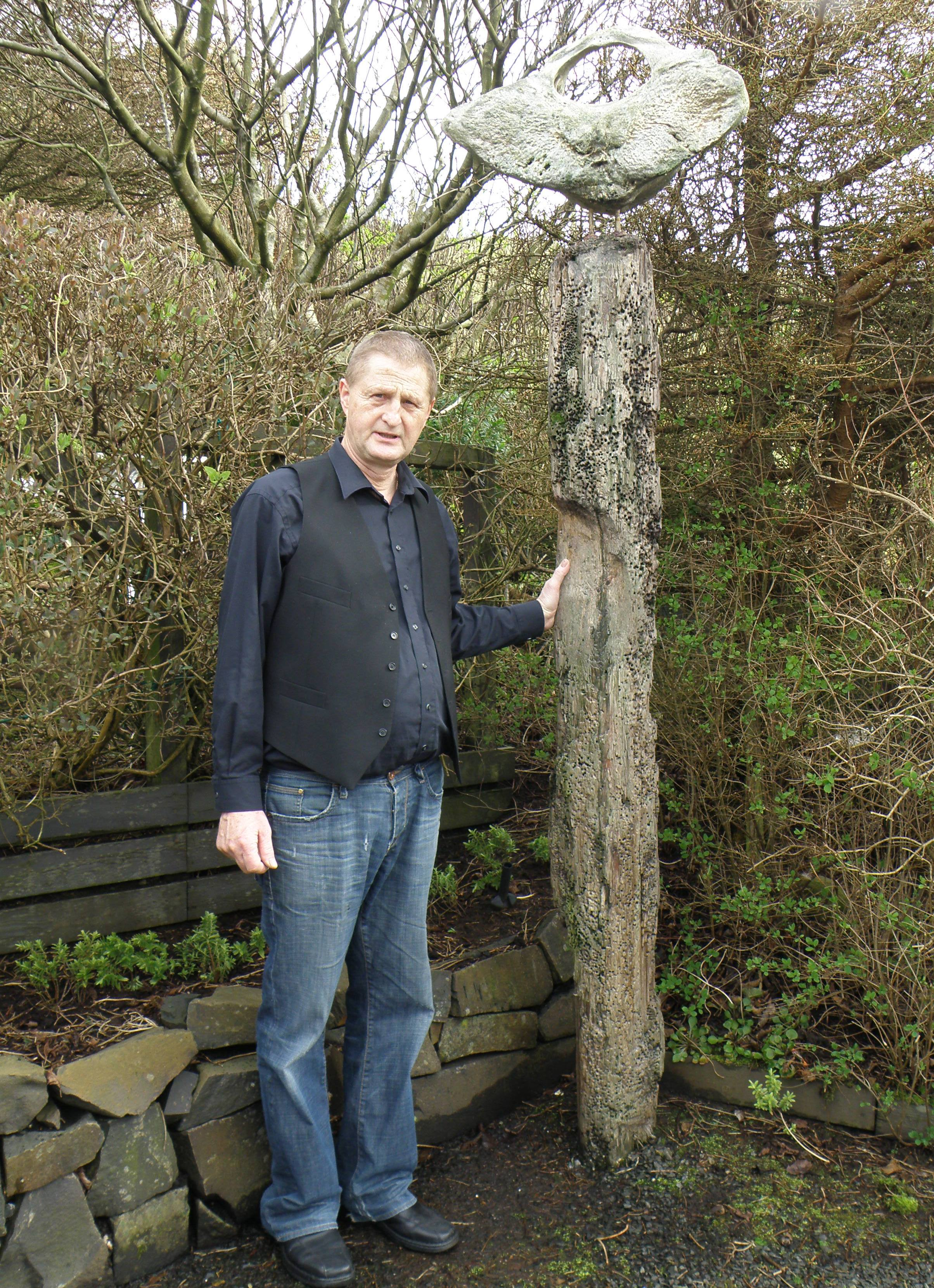 Palle Julsgart is a Danish artist who lives in the Faroe Islands. He is a sculptoror and a painter. Julsgart has his own art gallery in the basement of his home in Tvøroyri in Suðuroy. This photo shows Julsgart with one of his sculptures, the title of the sculpture is "The Eye of the Sun". It is made by drift wood and a bone of a whale. Julsgart often uses natural things and vaste stuff which he finds in the nature. Julsgart also arranges art trips to Suðuroy.